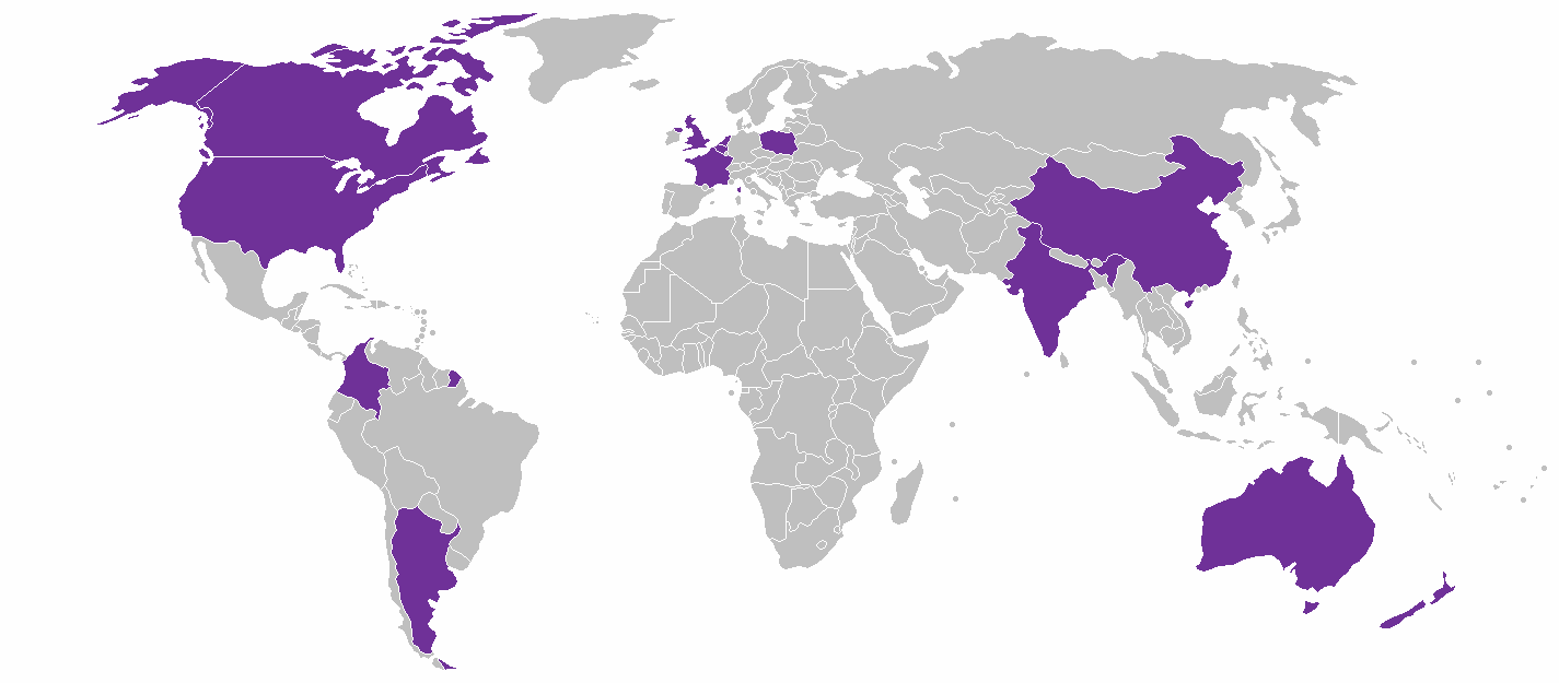 Global locations of McCain Foods factories